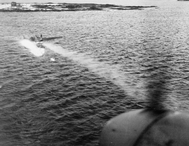 A German Heinkel He 115 on fire and trailing smoke, photographed by the observer of De Havilland Mosquito "P" of No. 333 (Norwegian) Squadron RAF based at Leuchars, Fife (UK), which intercepted the seaplane 60 m above the sea off Bremanger, Norway, while conducting a shipping reconnaissance. The Mosquito closed to within 200 m to finish off the Heinkel with cannon fire, which crashed into the sea shortly afterwards.